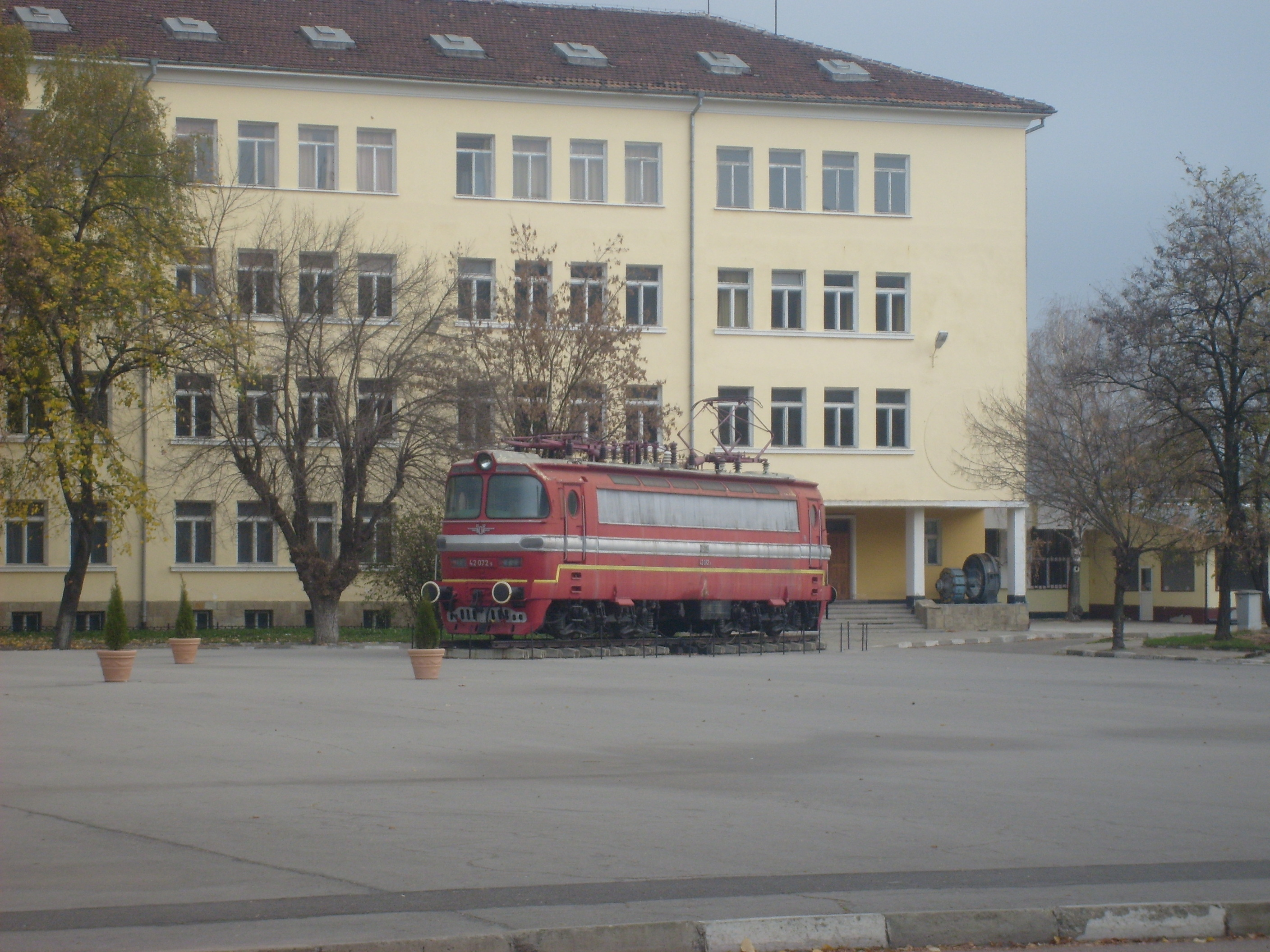 Todor Kableshkov University of Transport, Slatina, Sofia, Bulgaria